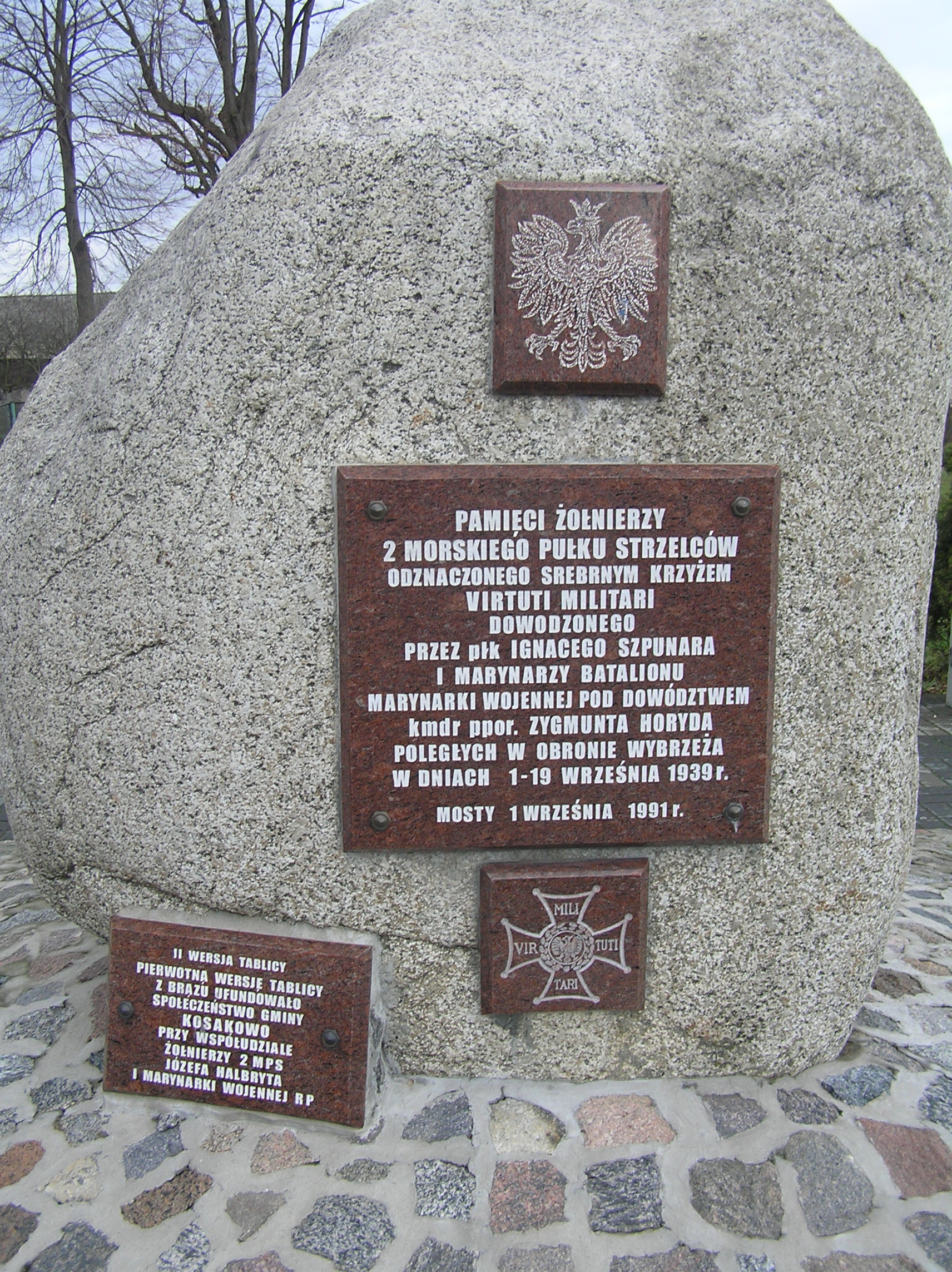 Monument to soldiers of 2nd Maritime Infantry Regiment and Seaman's Battalion in Mosty.